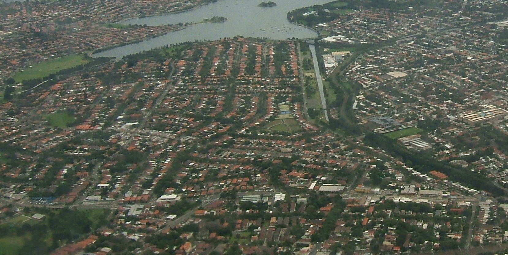 Aerial view of the said location in Sydney